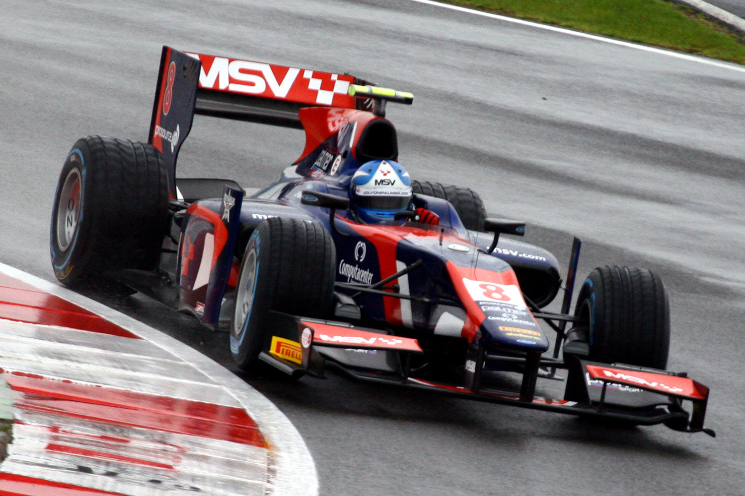 Jolyon Palmer in action for iSport at Silverstone